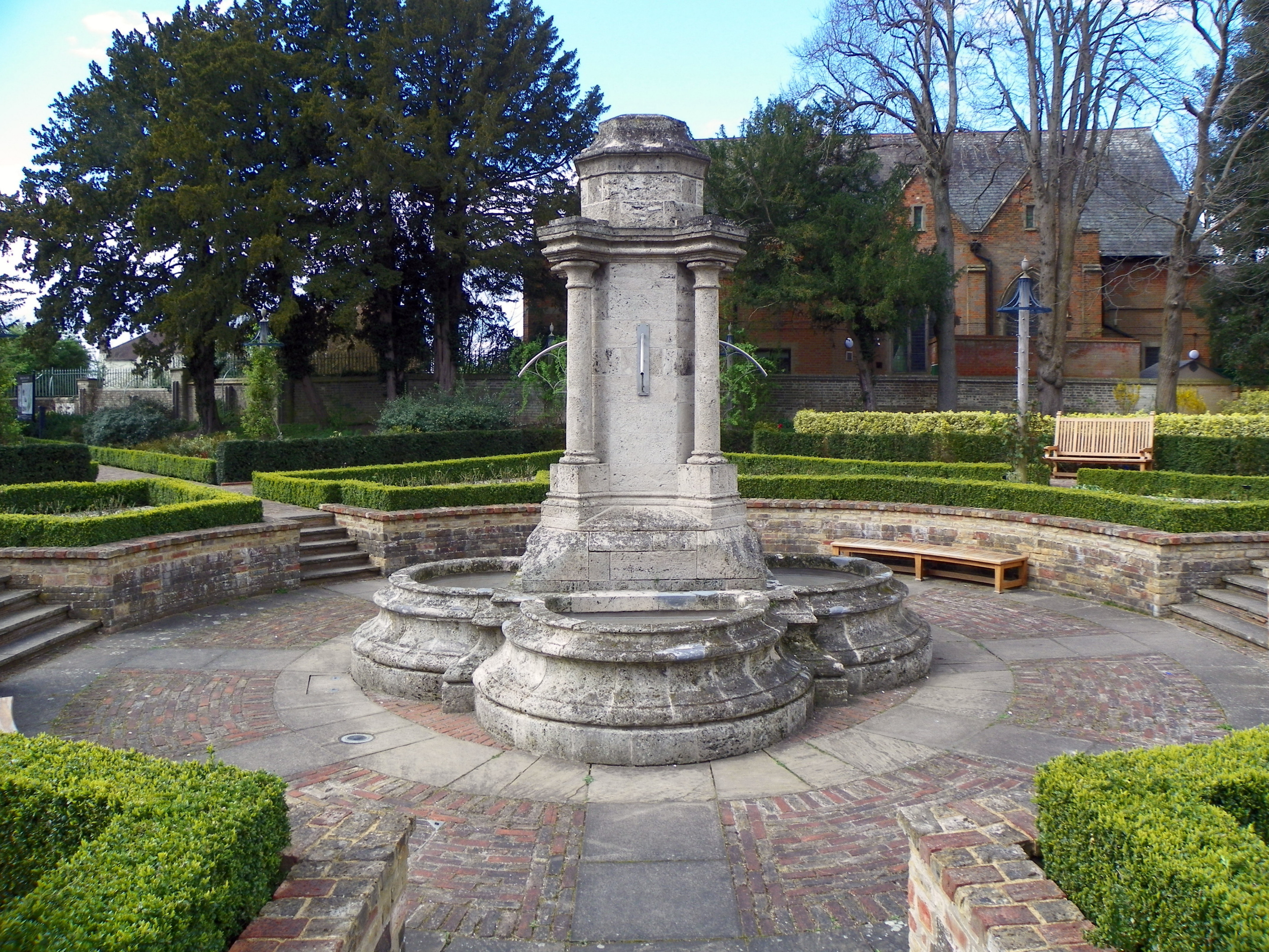 Fountain (now dry) in Bushey Rose Garden, Bushey, Hertfordshire, 1 April 2017. A Grade II listed building.